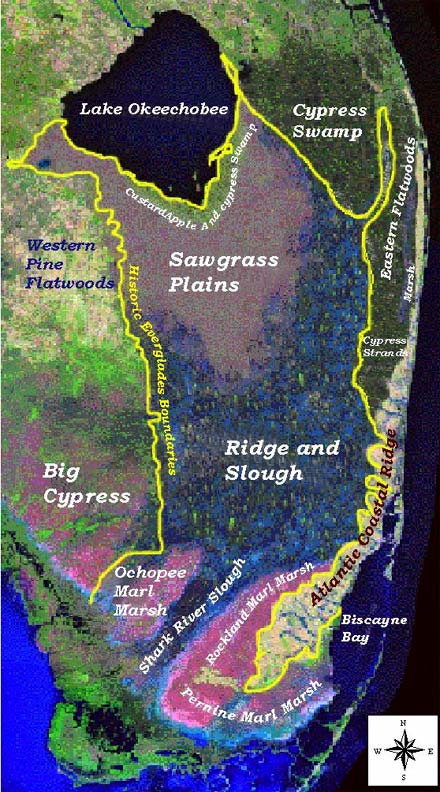 Geography_and_ecology_of_the_Everglades - Map of Historic Everglades Drainage Patterns